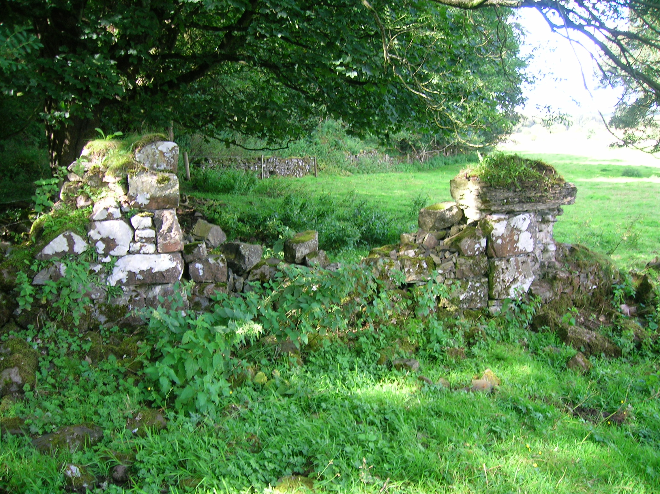 Old blocked gated entrance at Auchans Castle, Dundonald, South Ayrshire, Scotland.